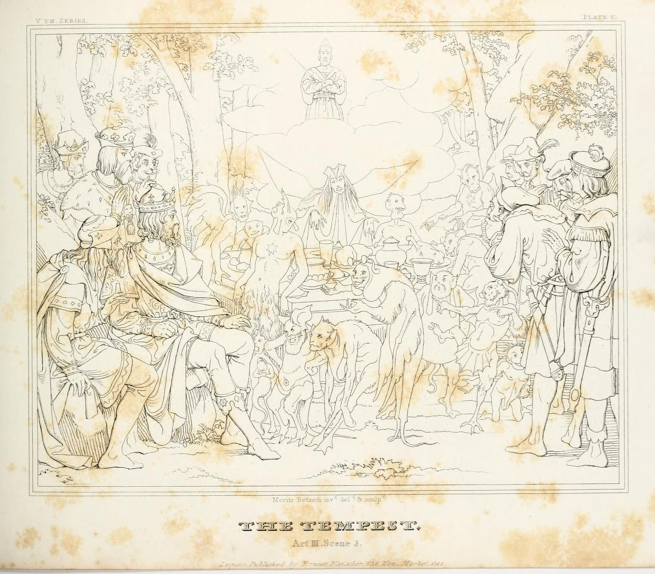 The Tempest act III scene 3 from Moritz Retzsch, Gallery to Shakespeare's dramatic works (New-York, 1853)